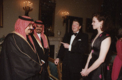 Reagan Photo Contact Sheet. Featured: President Reagan, Nancy Reagan, Donald Trump, Ivana Trump, Sigourney Weaver, King Fahd bin 'Abd al-'Aziz Al Sa'ud, (Not in all Photos). Blue Room, White House, Washington, D.C.